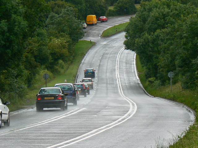 A foreshortened view of the A37 south towards Belluton Shame about the weather; there is a railway trackbed and a stretch of the Wansdyke in this square which I might have explored otherwise.